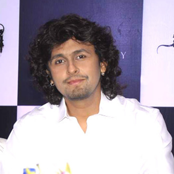 Sonu Nigam at Sahara Star New Year's bash press meet, 2013